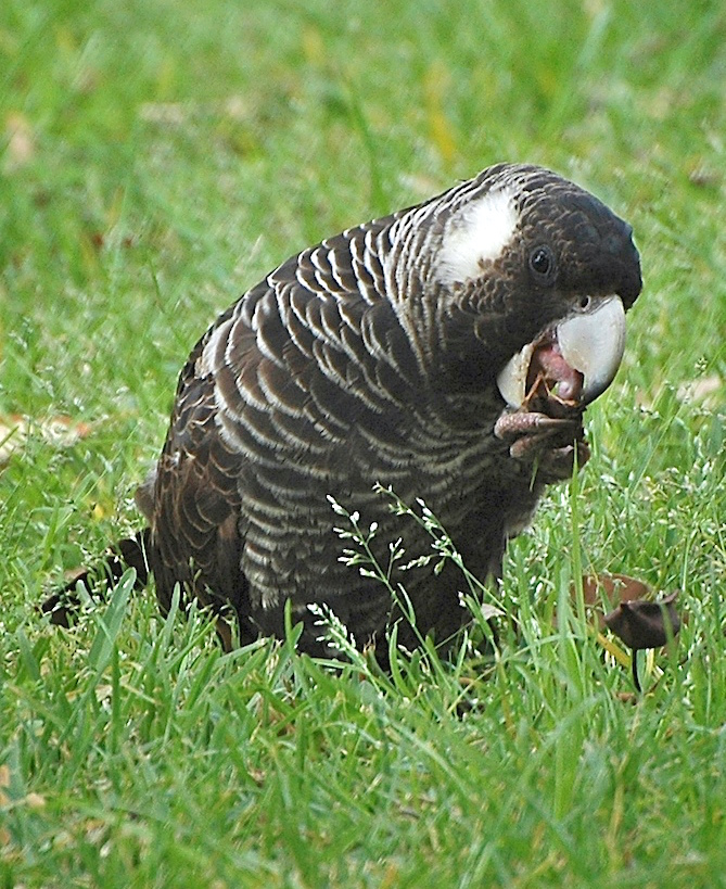 A female Short-billed Black Cockatoo feeding, Kings Park, Australia.